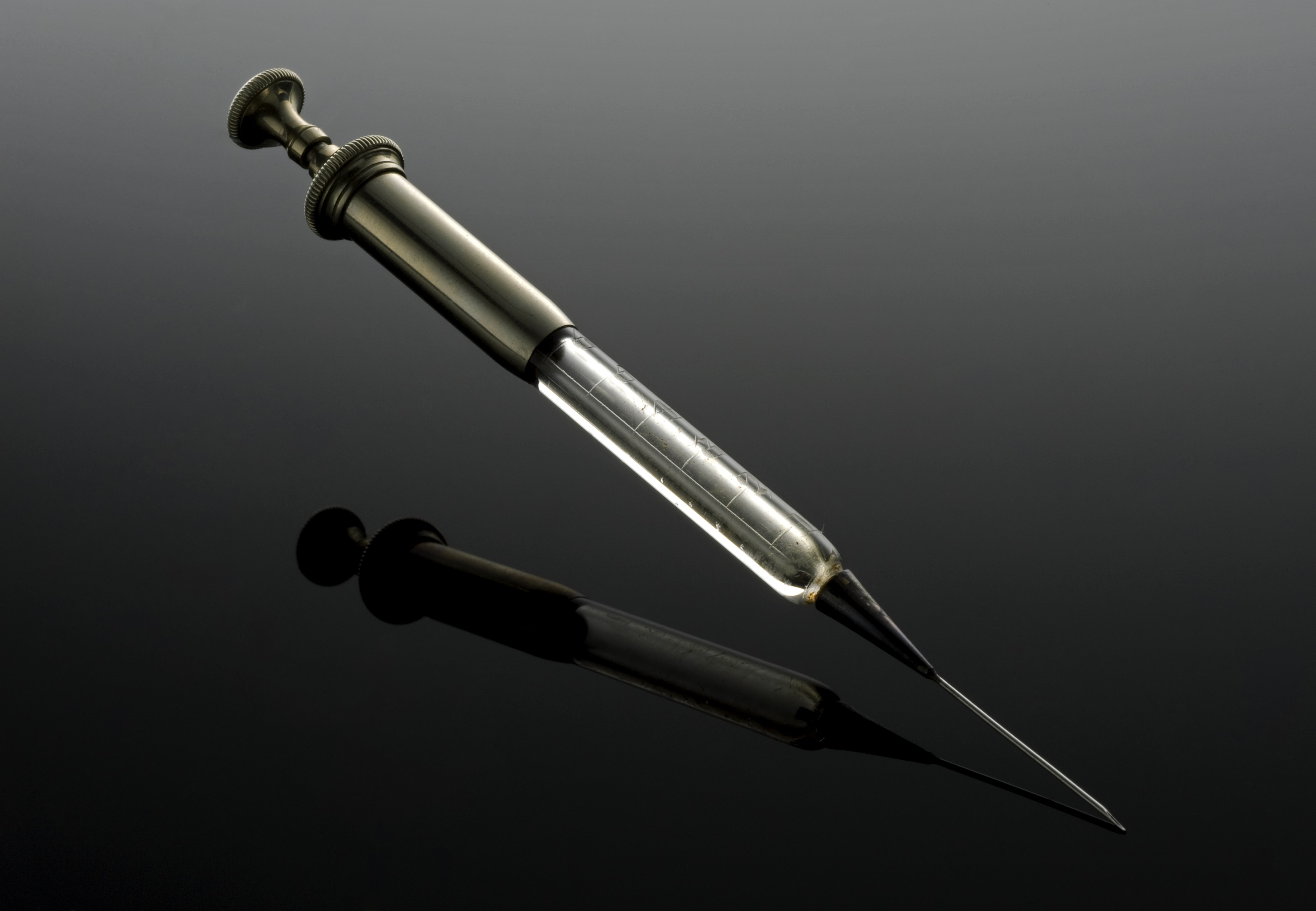 Hypodermic syringes are used to give treatments as injections under the skin. An Irishman, Frenchman and a Scot contributed to the invention. Francis Rynd (1801-1861) invented the hollow needle in 1844. Charles Pravaz (1791-1853) and Alexander Wood (1817-1884) each invented the syringe independently in the early 1850s. Wood introduced the use of the syringe for administering drugs such as morphine, a pain reliever. This syringe was made by Coxeter & Son. maker: James Coxeter and Son Place made: England, United Kingdom Wellcome Images Keywords: Morphine; hypodermic syringe